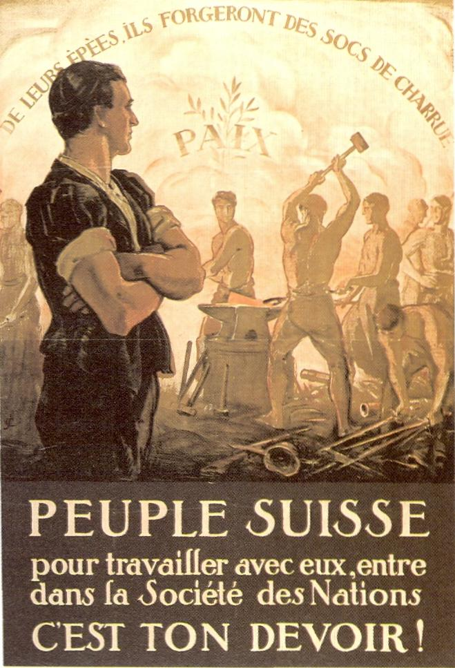 Swiss advertisement for admission in the League of Nations in 1920